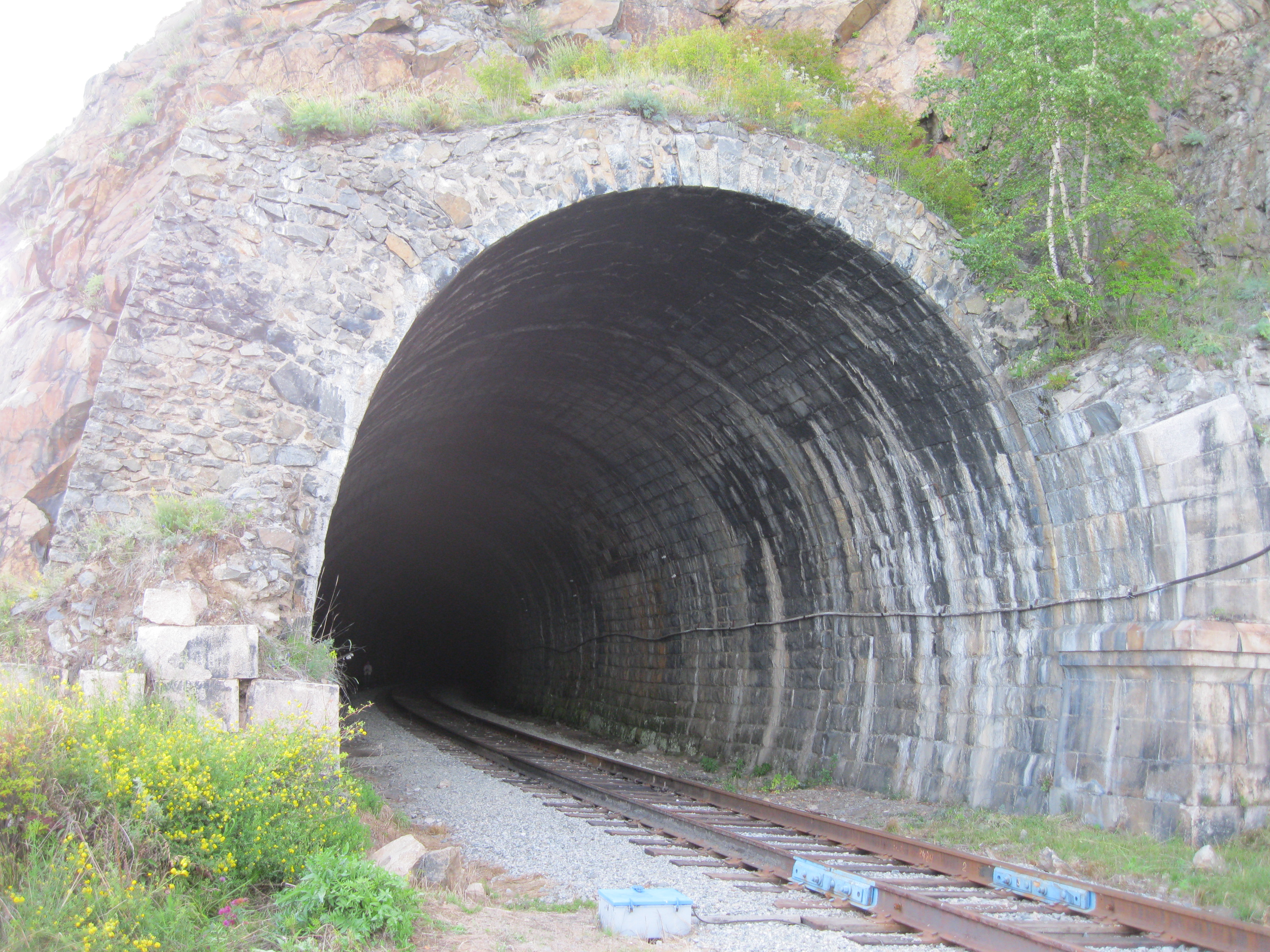 Ost portal tunnel №9 (CBR)